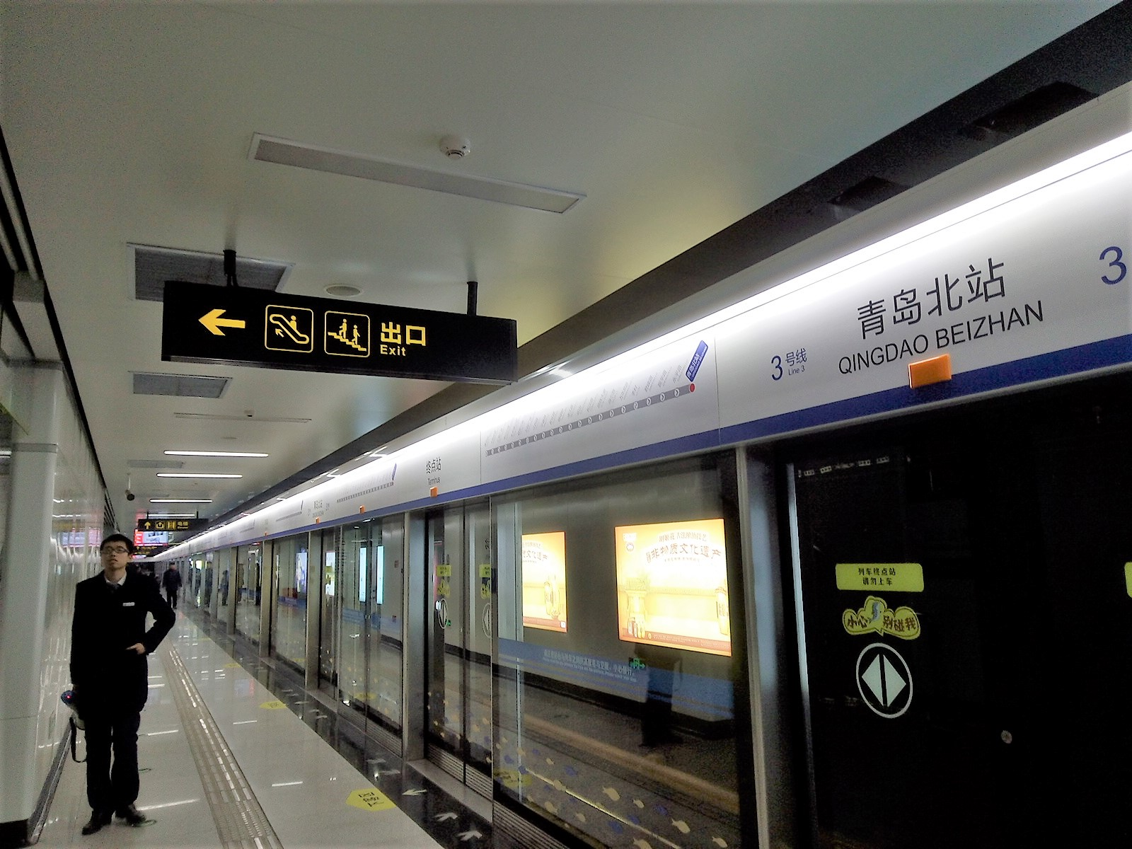 Qingdao Beizhan Metro 3 Station